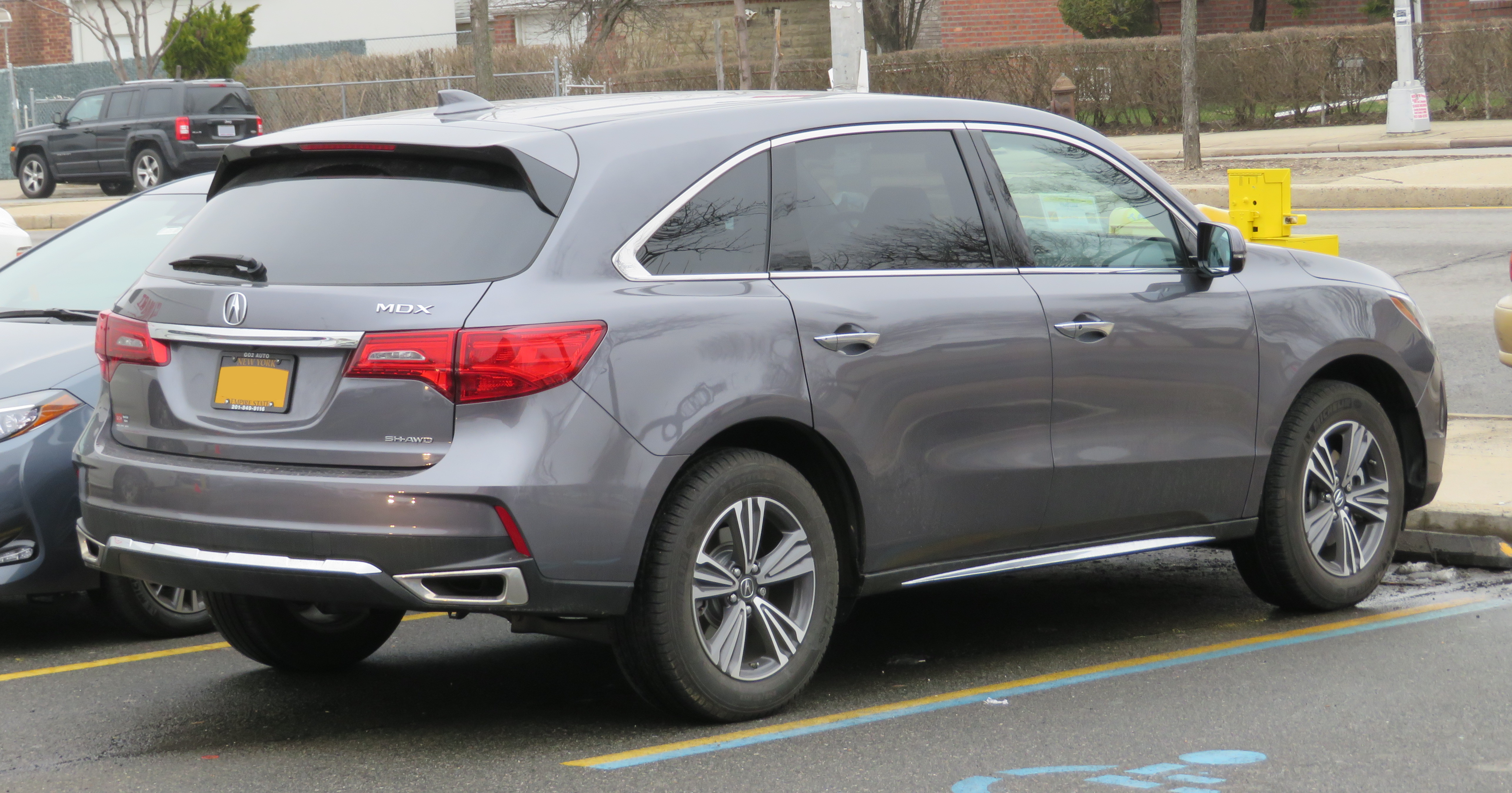 Photographed in Queens, New York